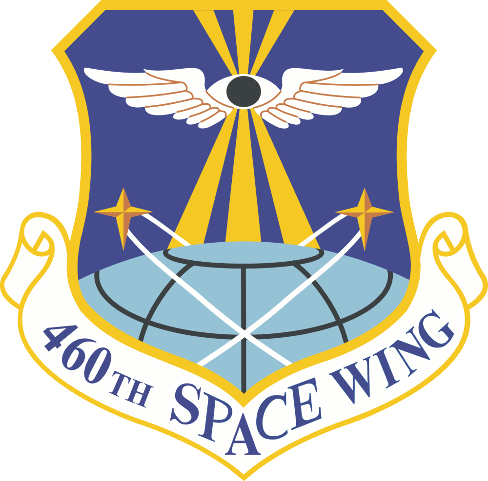 Emblem of the 460th Space Wing, a wing of the United States Air Force